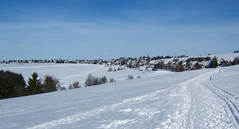 Neustadt am Rennsteig, a small city in the Thuringian Forest